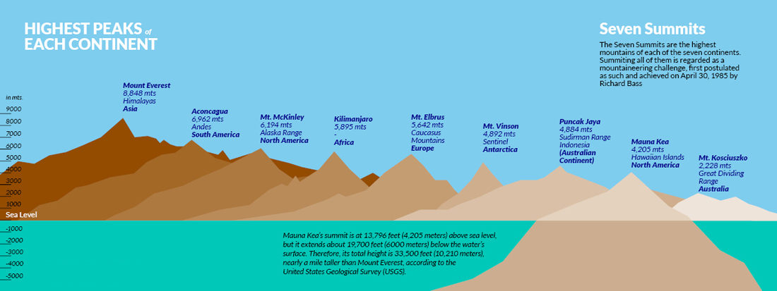 Highest peaks of each continent in comparison with each other. Mount Everest, Aconcagua, McKinley, Kilimanjaro, Elbrus, Vinson, Puncak Jaya, Kosciuzko, Mauna Kea